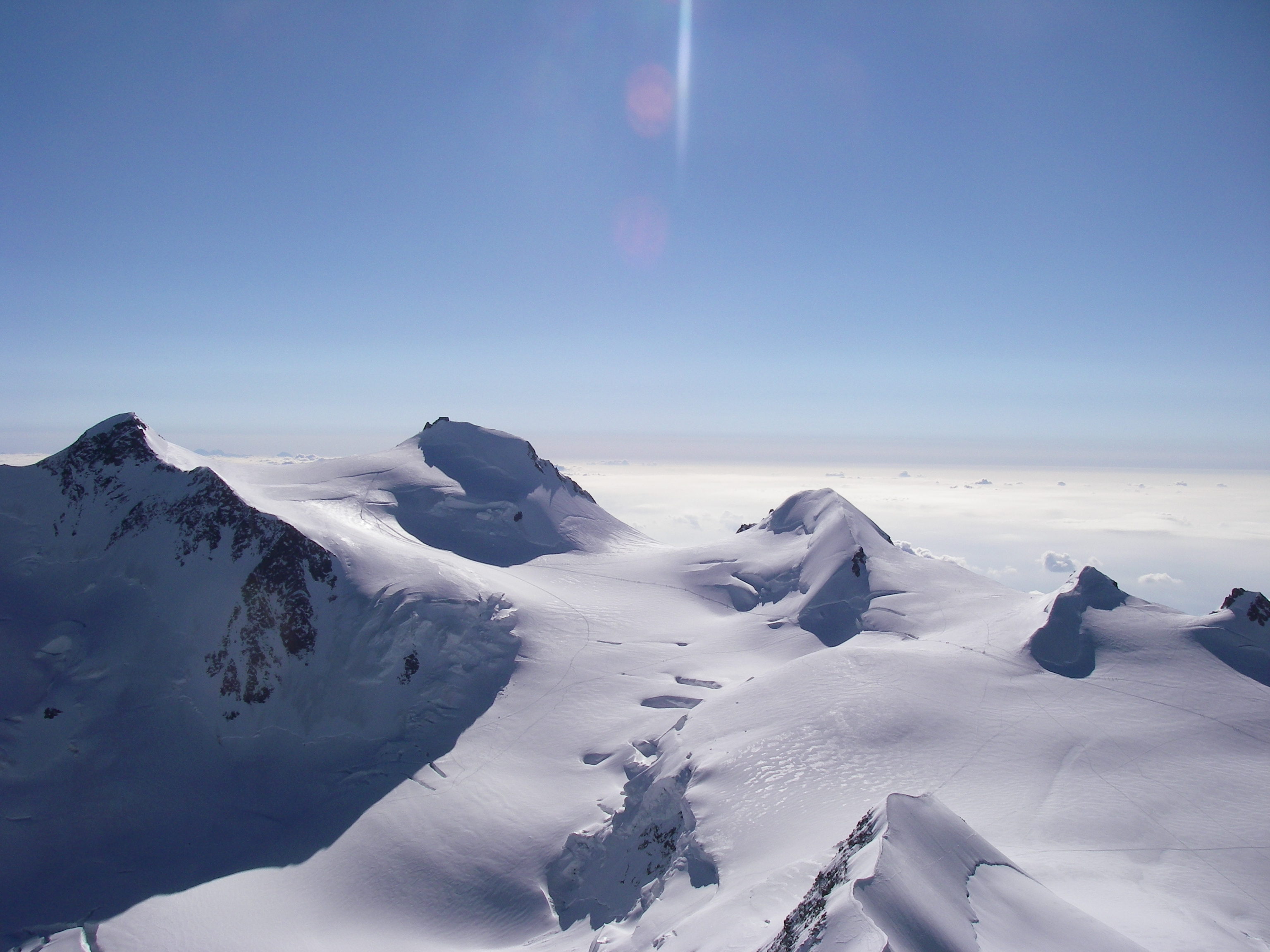 Zumsteinspitze, Signalkuppe (Margherita hut), Parrotspitze, Ludwigshöhe, Corno Nero (Schwarzhorn), taken from the Liskamm.